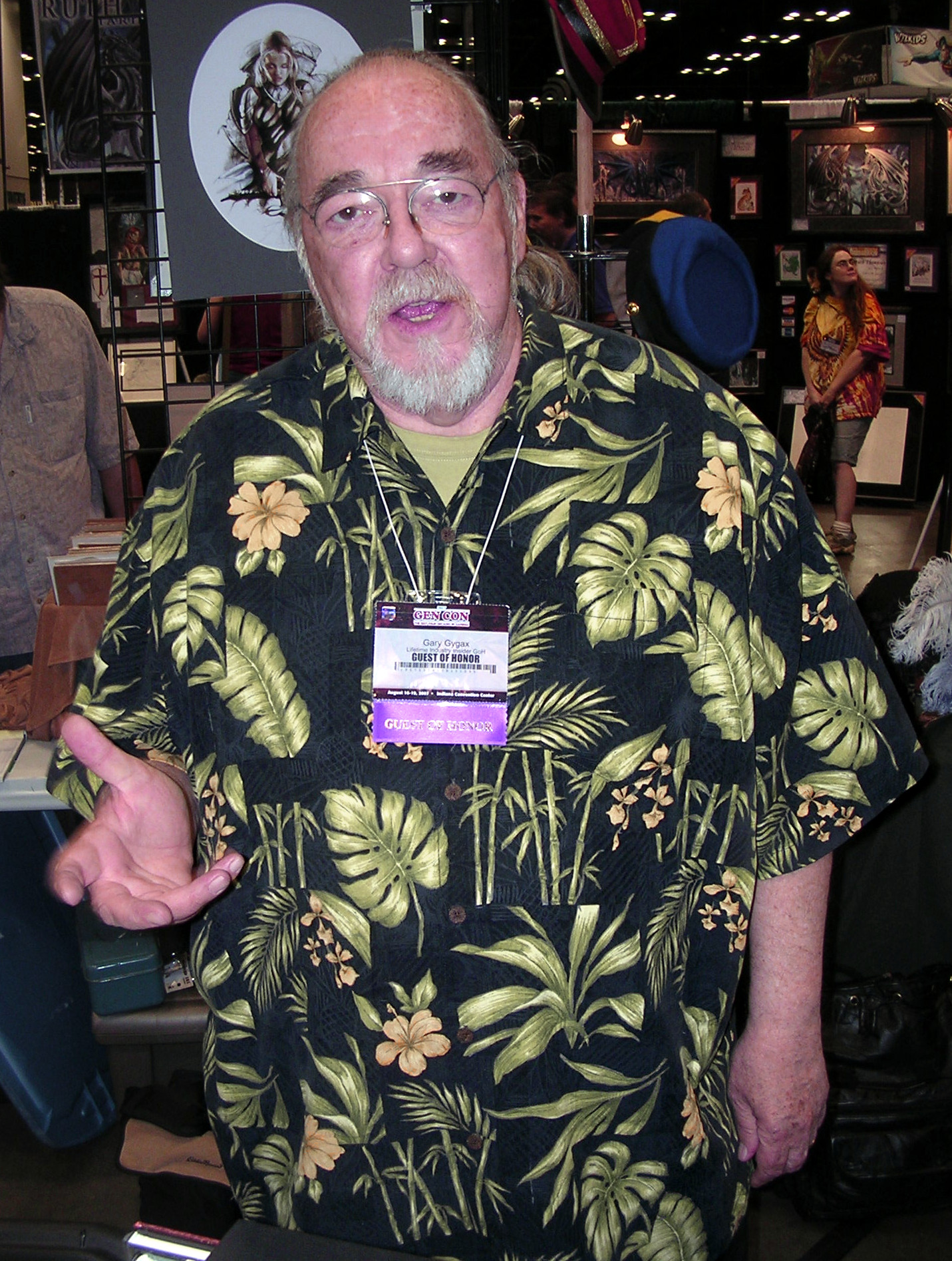 Gary Gygax at Gen Con Indy 2007. Gygax is standing in the Troll Lord Games booth (booth 515).